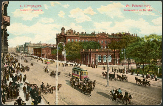 Saint Petersburg (Russia), Anichkov Palace.